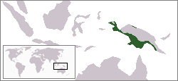 A map of Varanus salvadorii's estimated range, indicated by the green.